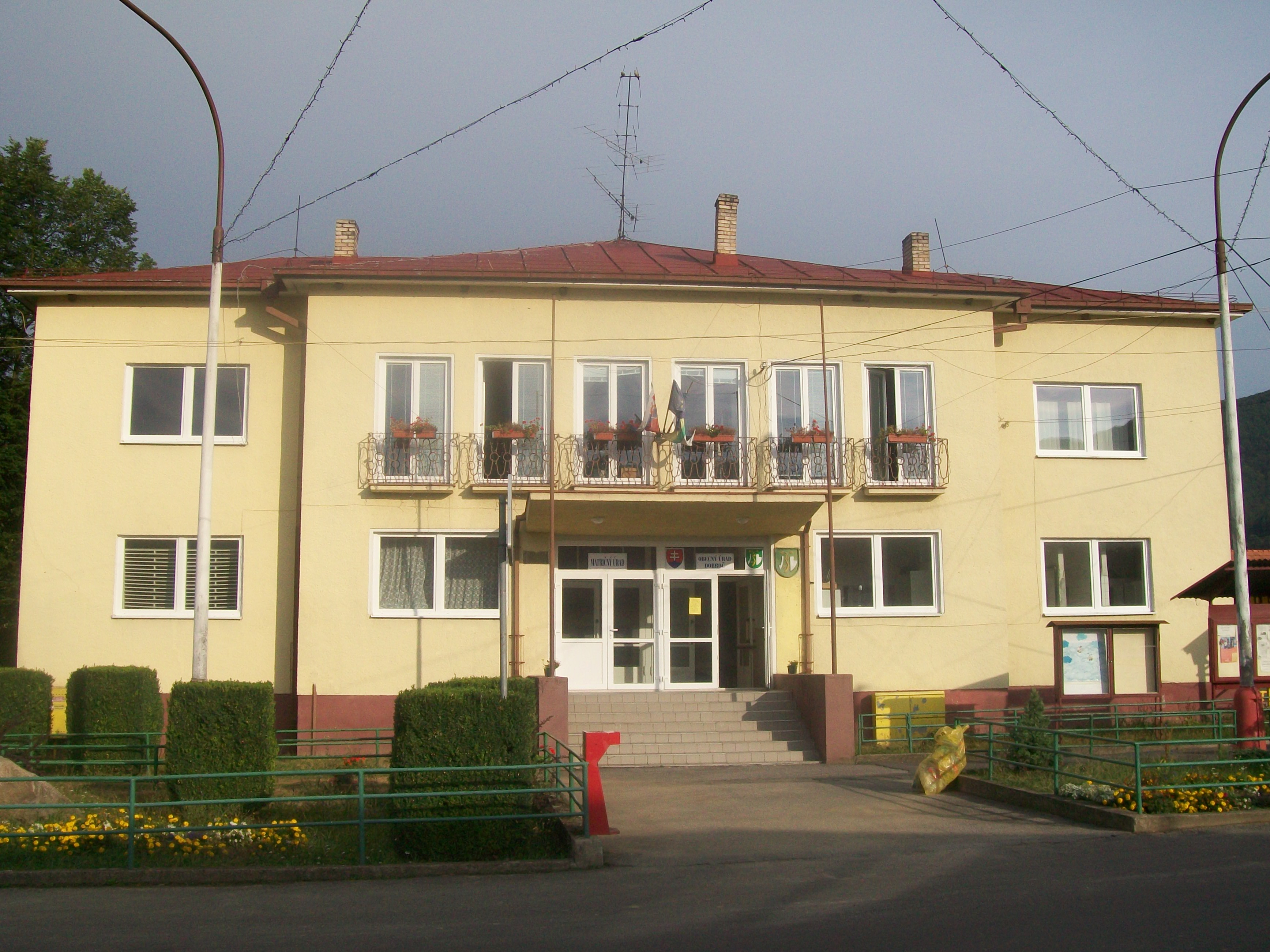 Municipal office in the village DobročSlovenčina: Obecný úrad v Dobroči